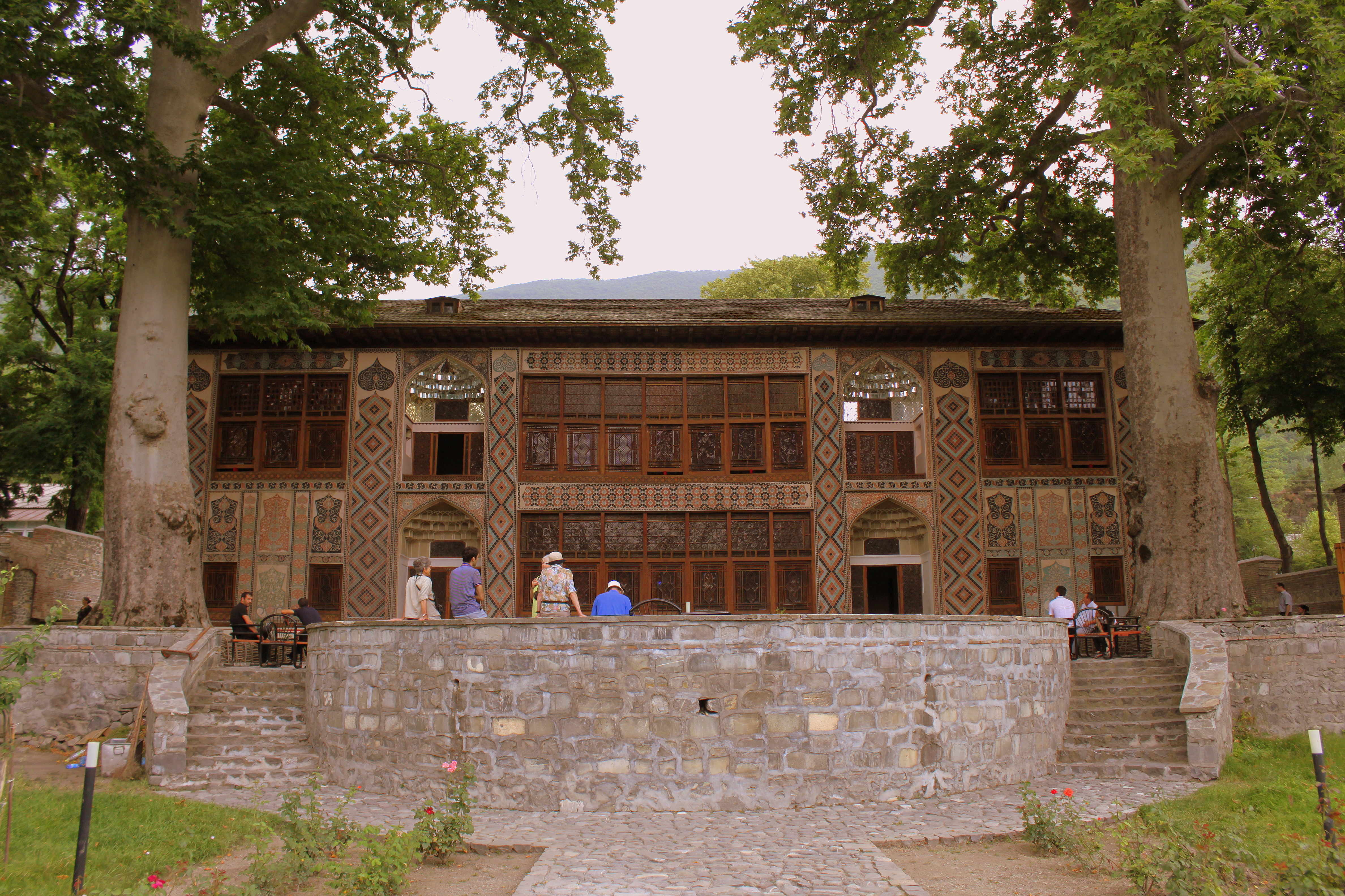 Shaki khan palace.